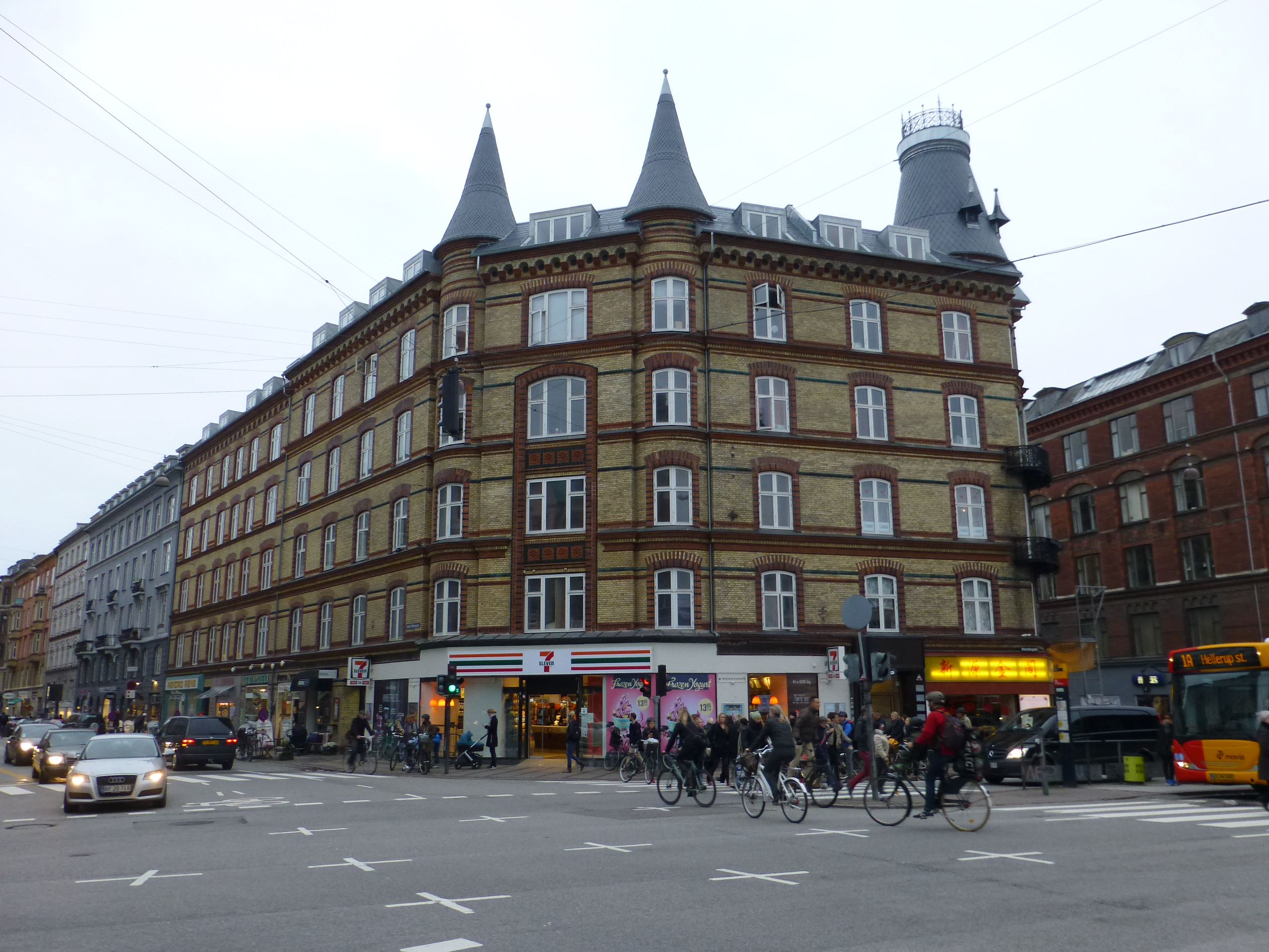 The building Petersborg at Trianglen in Østerbro in Copenhagen.